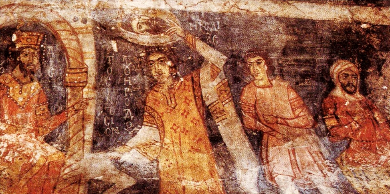 Fresco of Herodes the Great at the banquet. From the church of Panagia Episcope on the Greek island of Santorini.